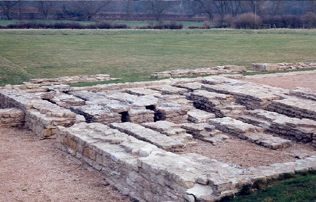 The remains of a large, well-built Roman courtyard villa